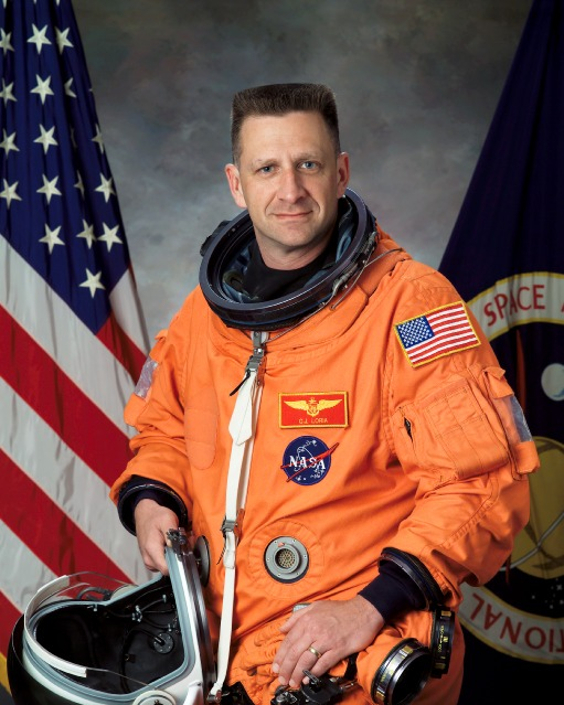 portrait astronaut Christopher Loria